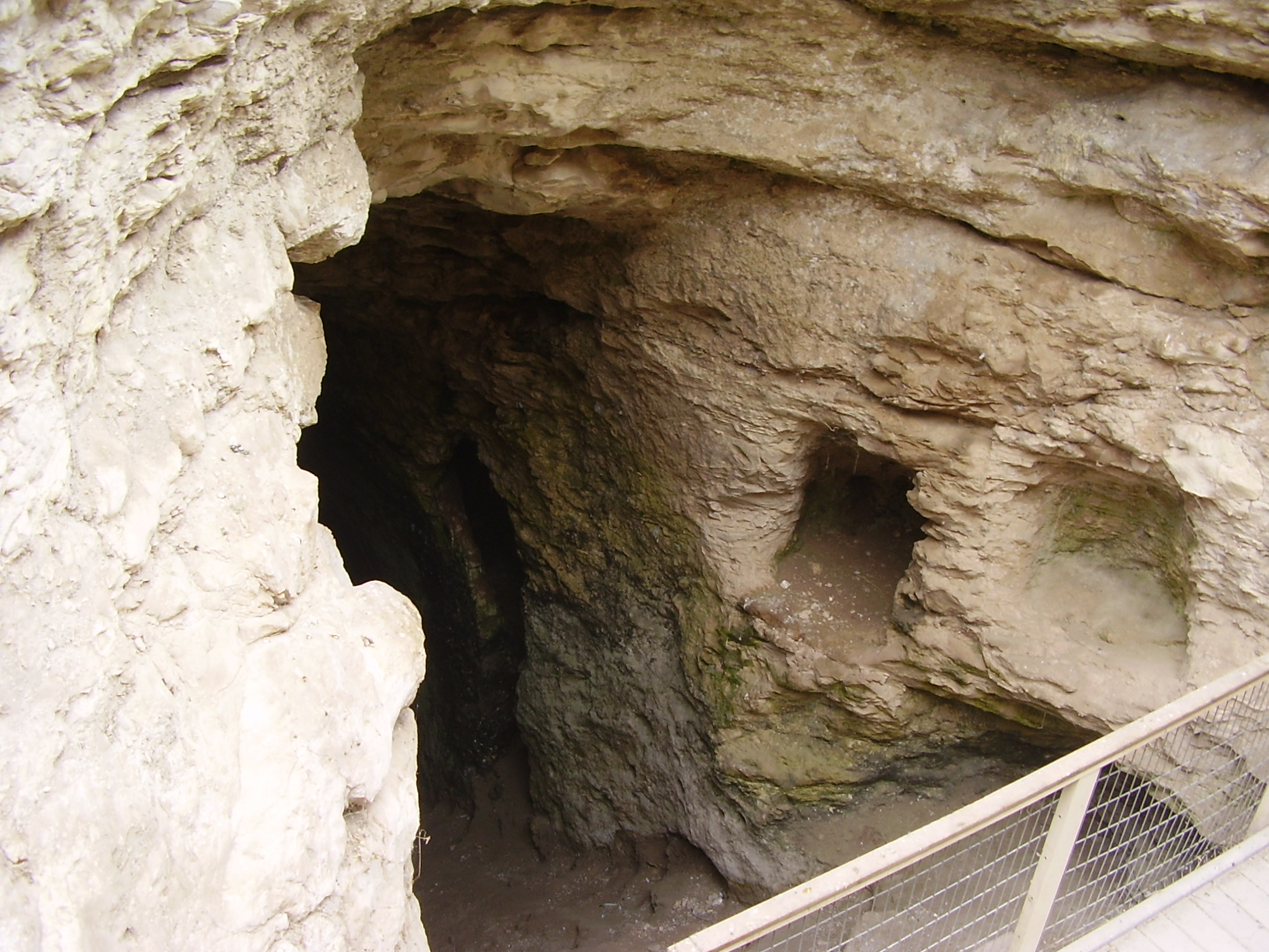 water plant in tel gezer